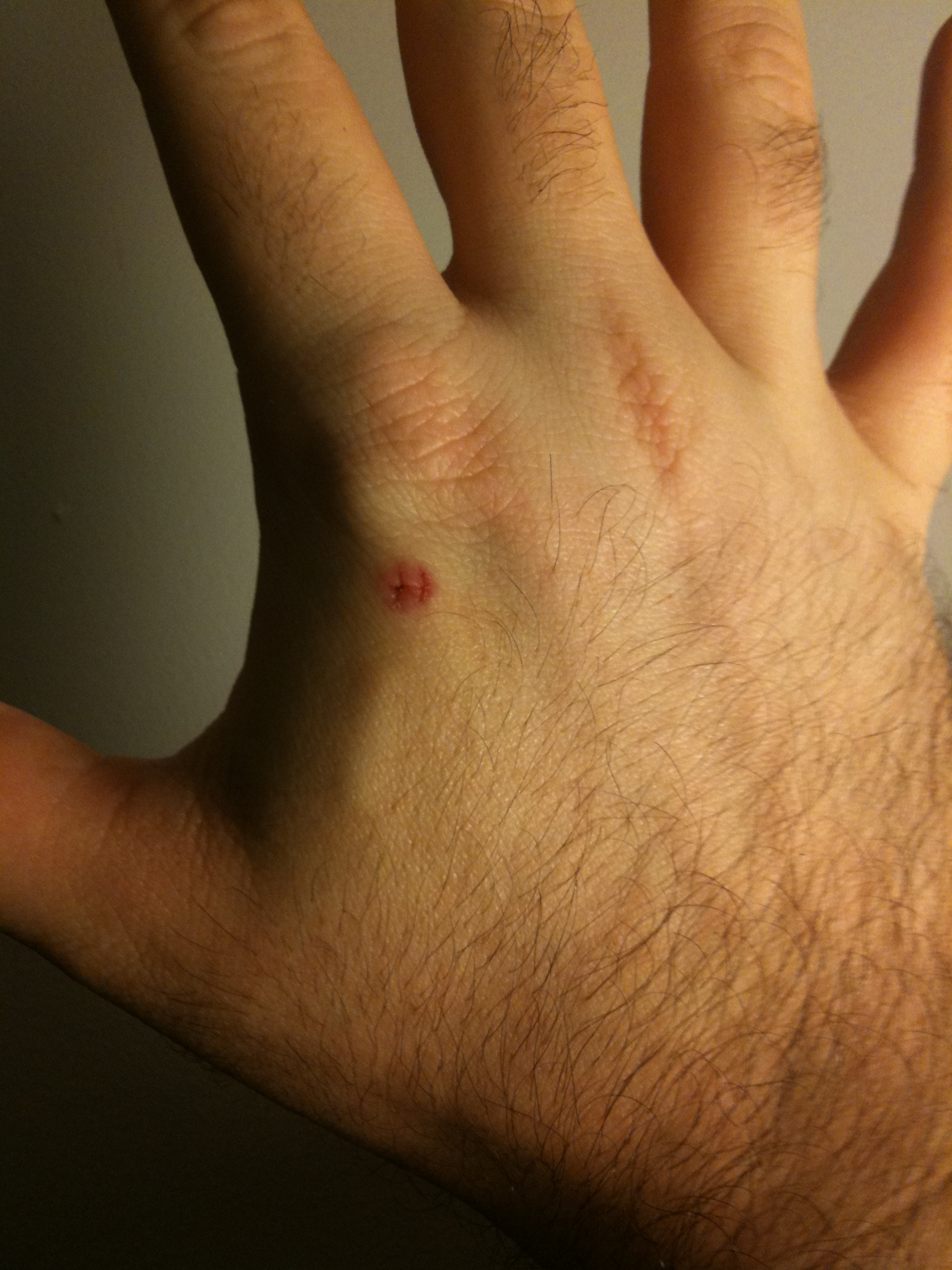 My right hand several days after getting an RFID implant, just after removing the initial stitches. The RFID tag can be seen under the skin just below the implant scar.